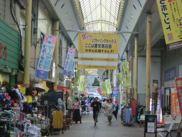 Tojinmachi arcade in Fukuoka,Japan.